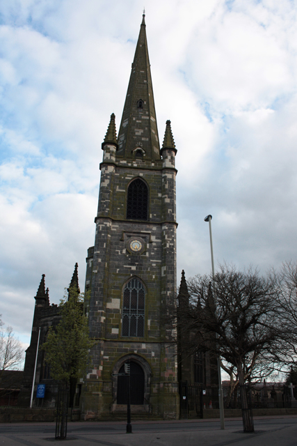 Parish church of SS Thomas and Luke, Dudley, West Midlands, seen from the north from High Street